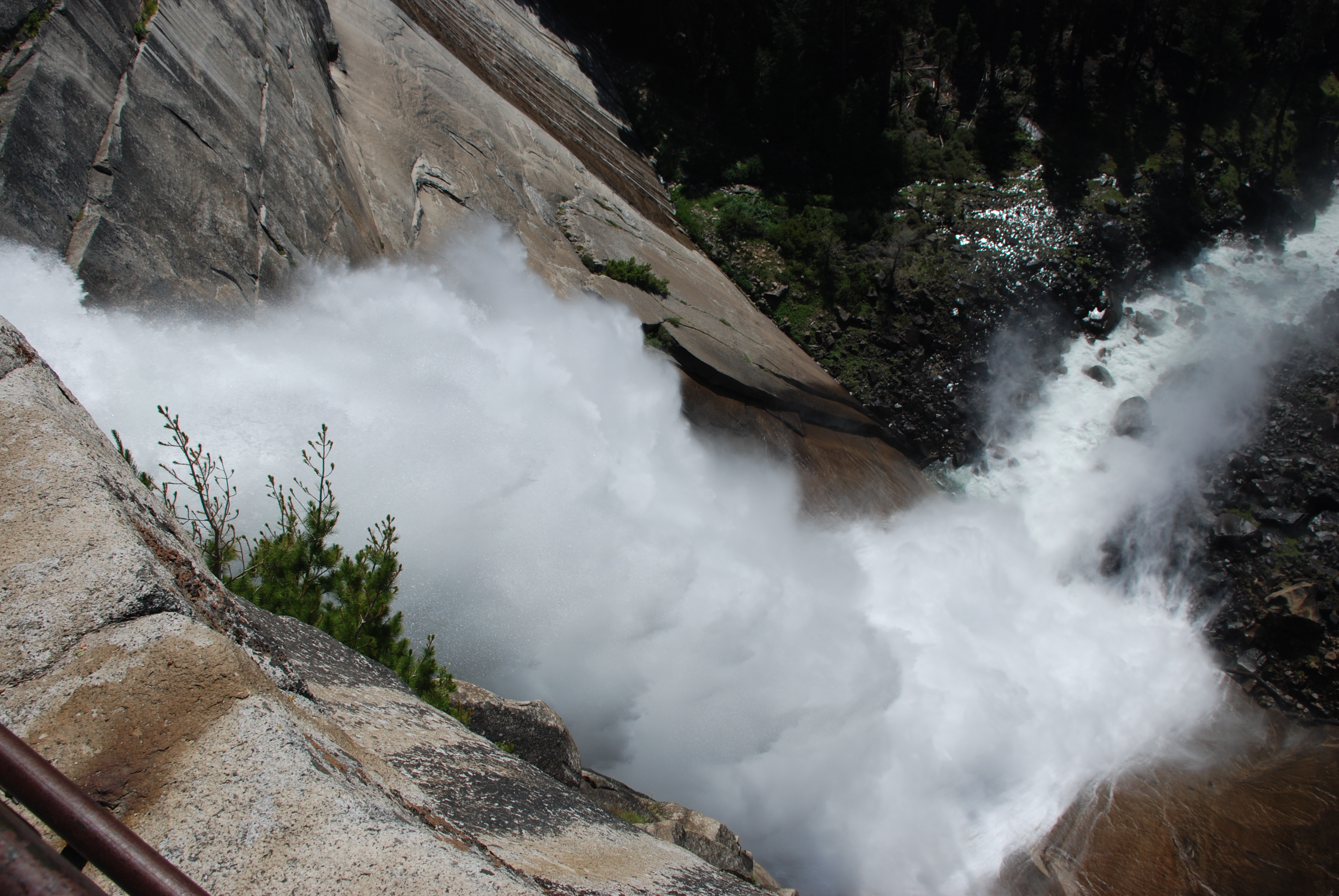 Water falling down at Nevada Fall, Yosemite National Park, California, USA